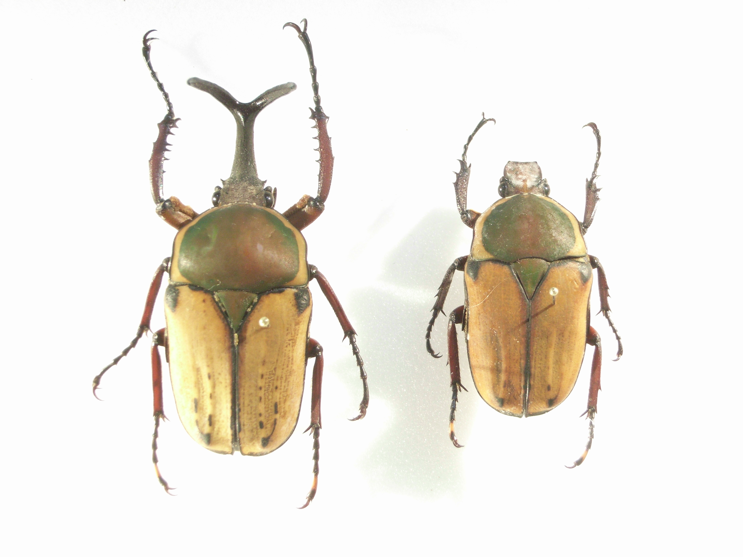 Megalorrhina harrisi pallescens Pair Ex coll. Felix Stumpe